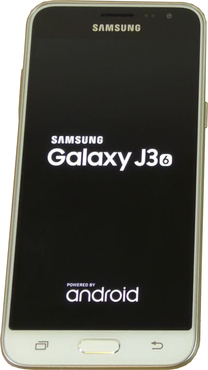 Samsung Galaxy J3 (2016) front golden color